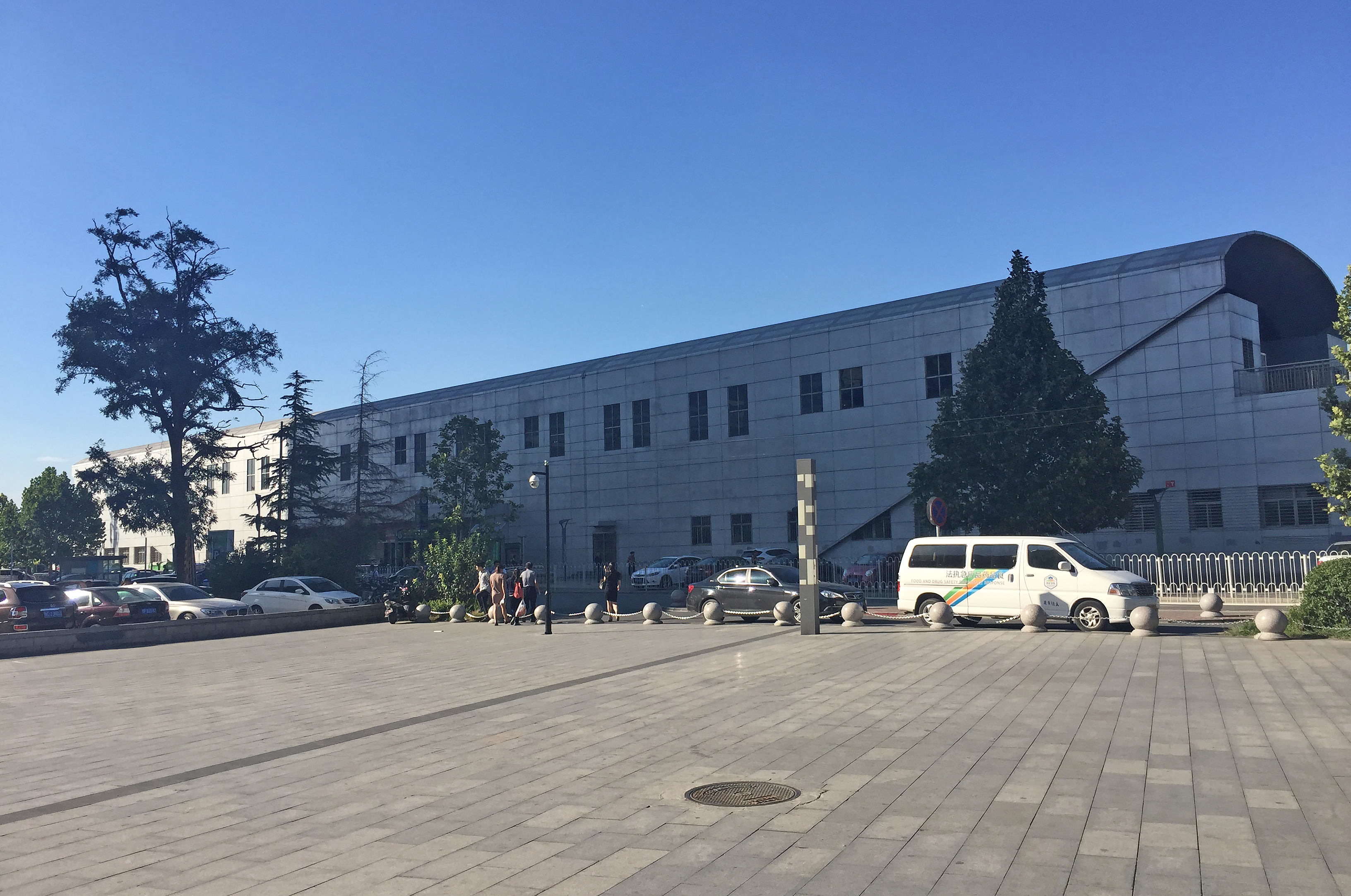 Taken after a delayed lunch.